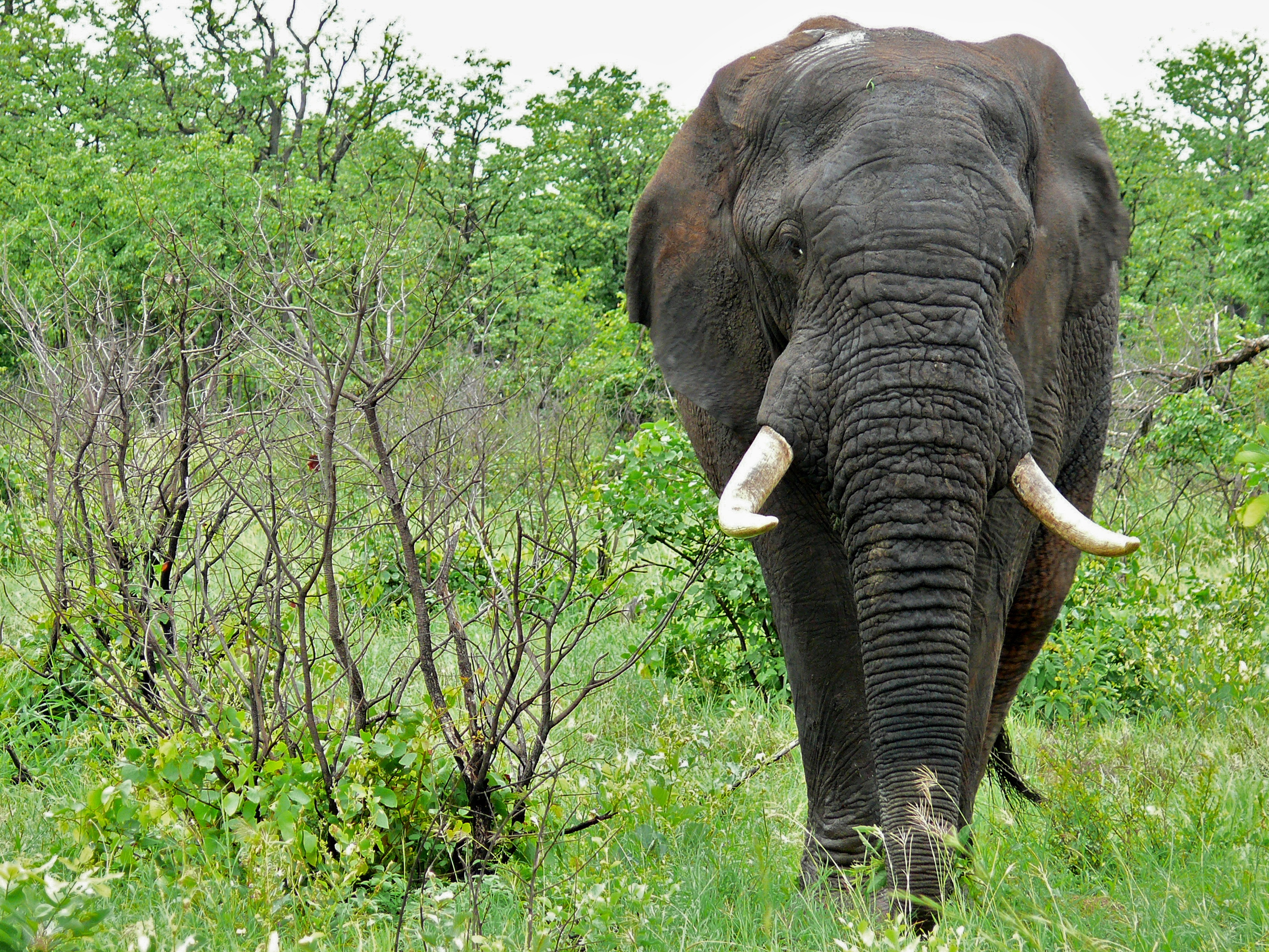 H1-6 South of Shingwedzi, Kruger NP, SOUTH AFRICA